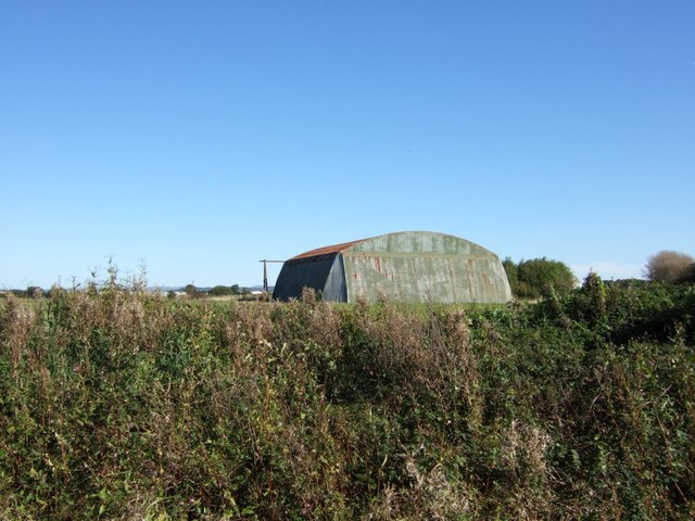 Old Hangar Remaining from the WW2 RNAS air station, HMS Ringtail.